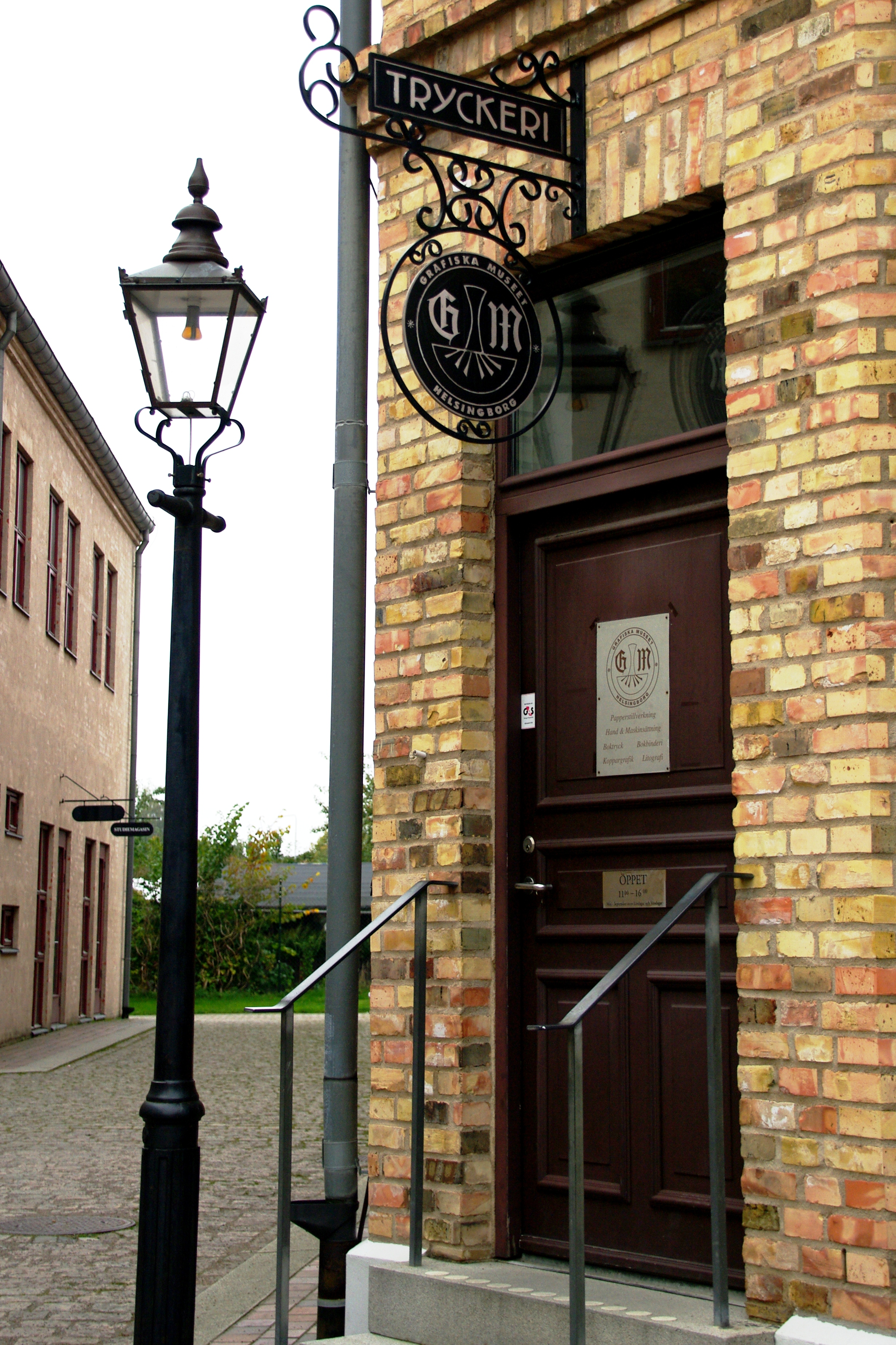 The Printing Museum in Helsingborg is the largest working print house museum in the Nordic countries.